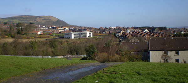 A view of the Ballysillan area of Belfast from the Glencairn estate.